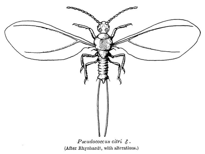 Citrus Mealy Bug (Planococcus citri). Pseudococcus citri is an outdated scientific name.